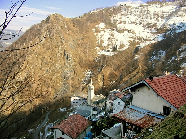 Val Strona Picture taken by user Idefix, march 2006